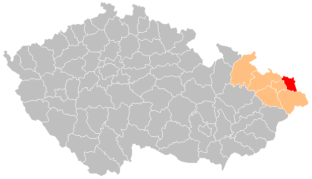 District of Karviná